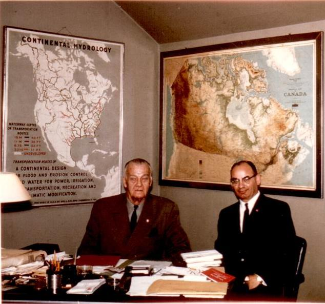 An elderly Howard Scott with John Gregory at Technocracy Inc. Continental Headquarters (CHQ), then in Rushland, PA. Background maps show the proposed area of the Technate overlaid with the "Continental Hydrology".